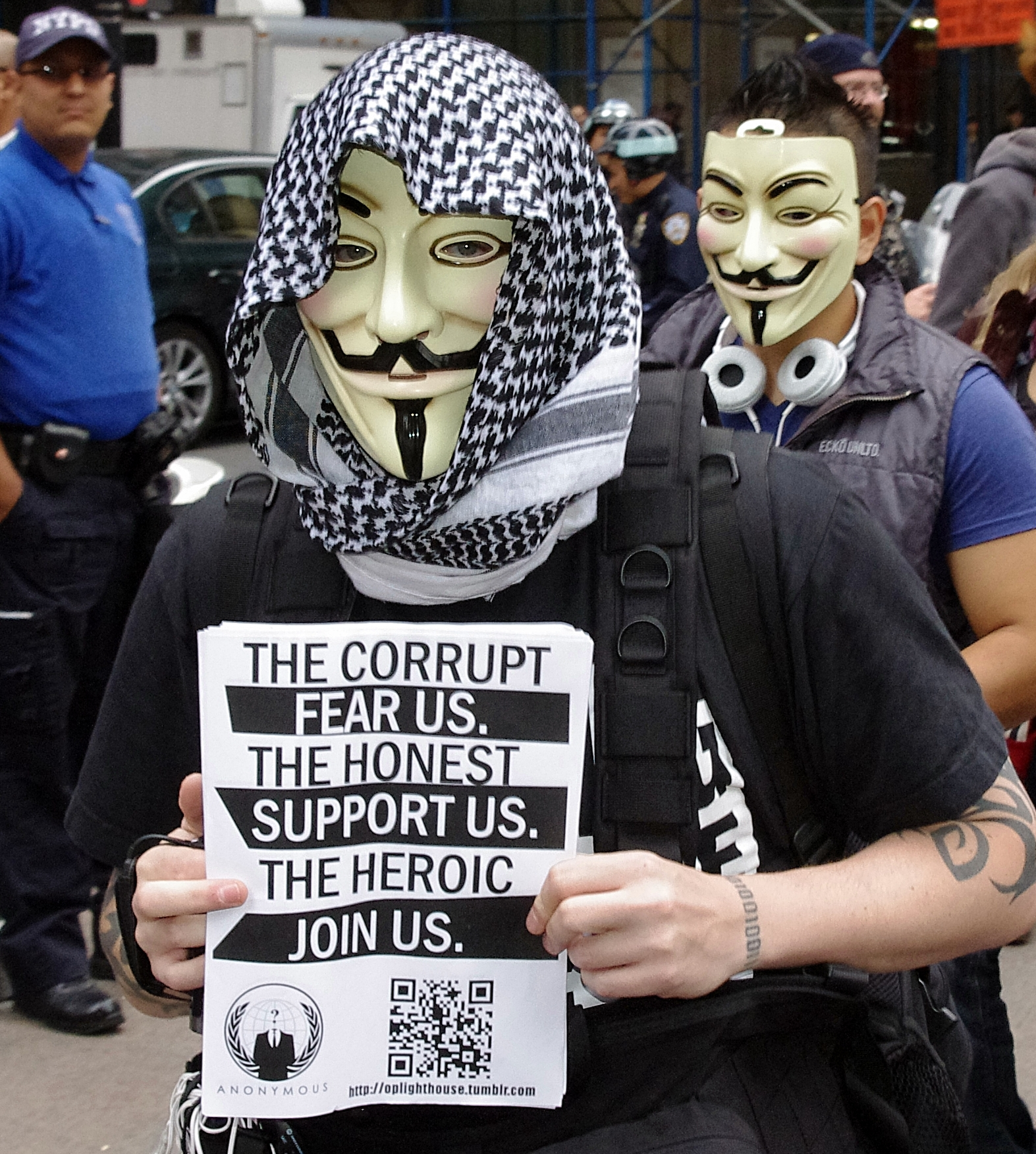 A member of Anonymous at the Occupy Wall Street protest in New York.